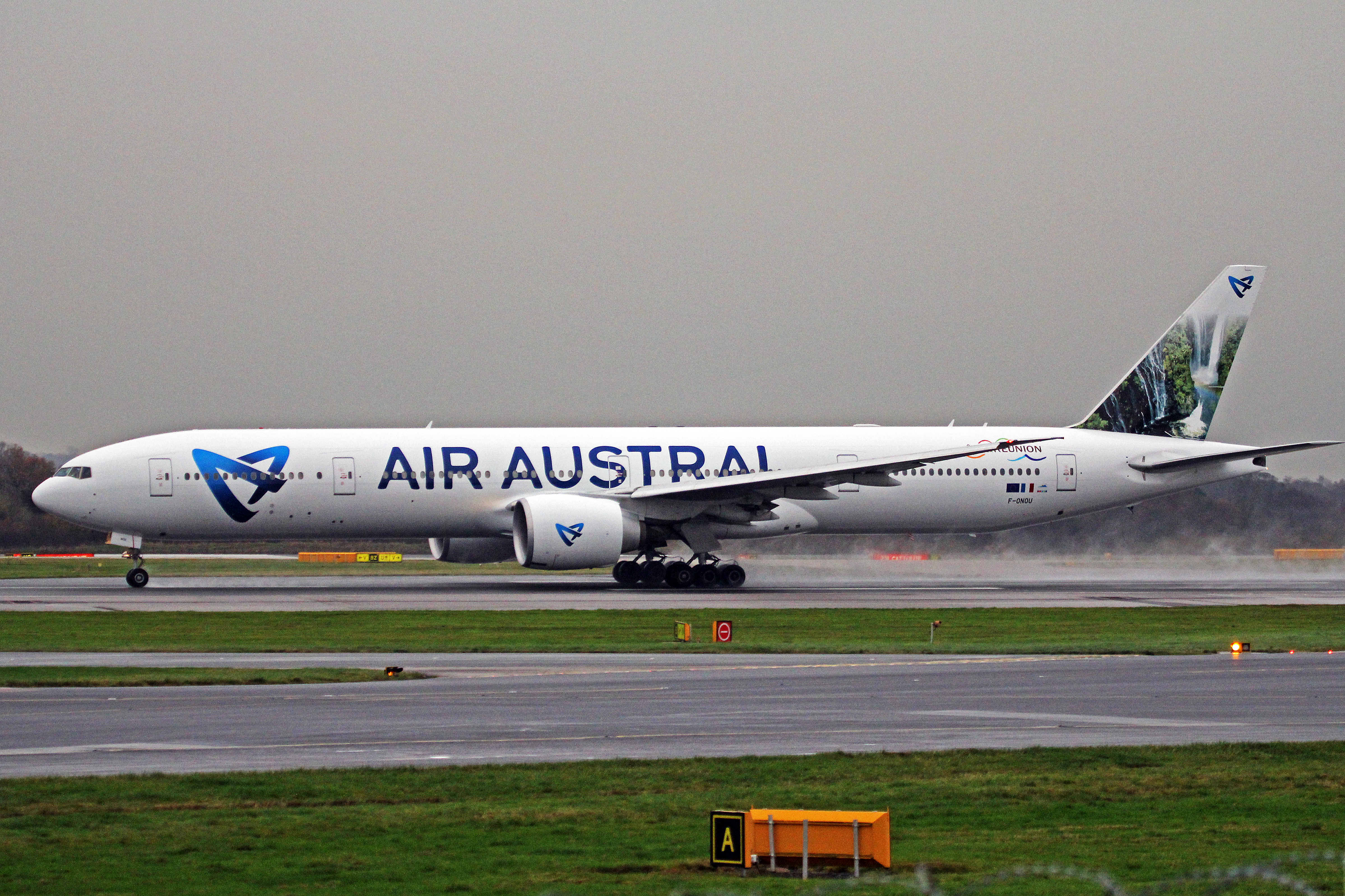 F-ONOU B777-3Q8ER Air Austral MAN 26NOV14